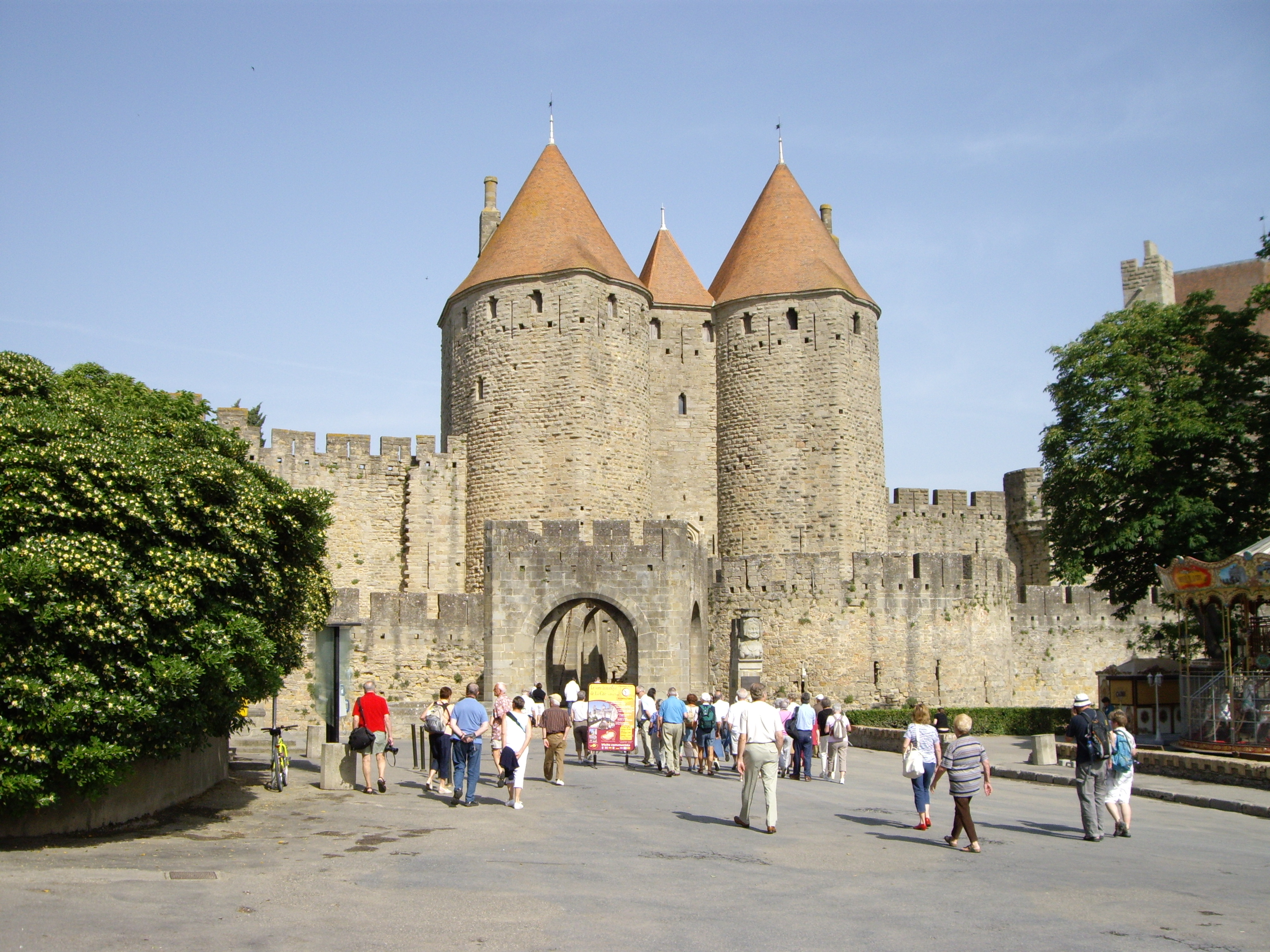 Narbonnaise City Gate, Fortified City of Carcassonne, Aude, France